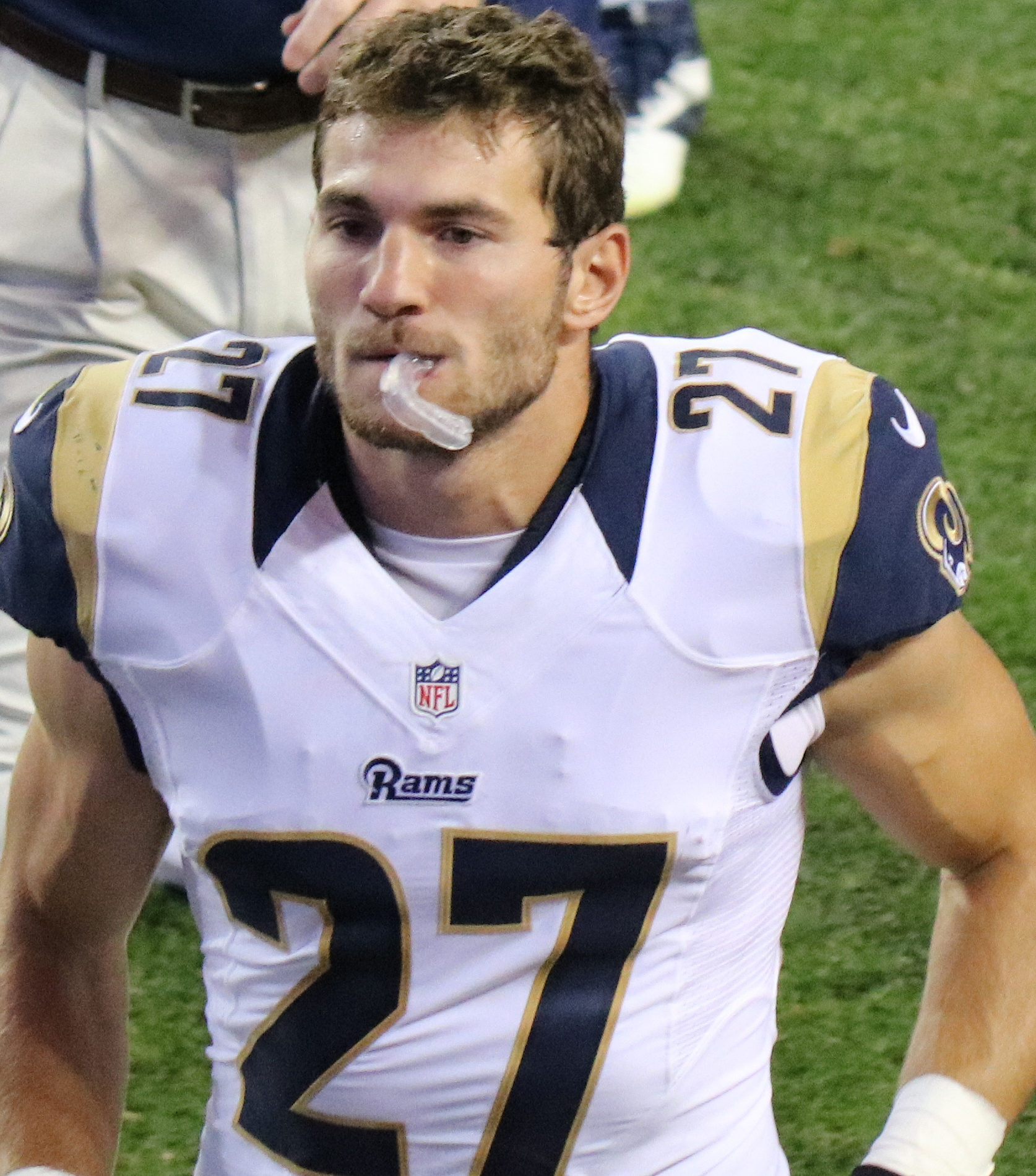 Michael Caputo, a player on the National Football League.